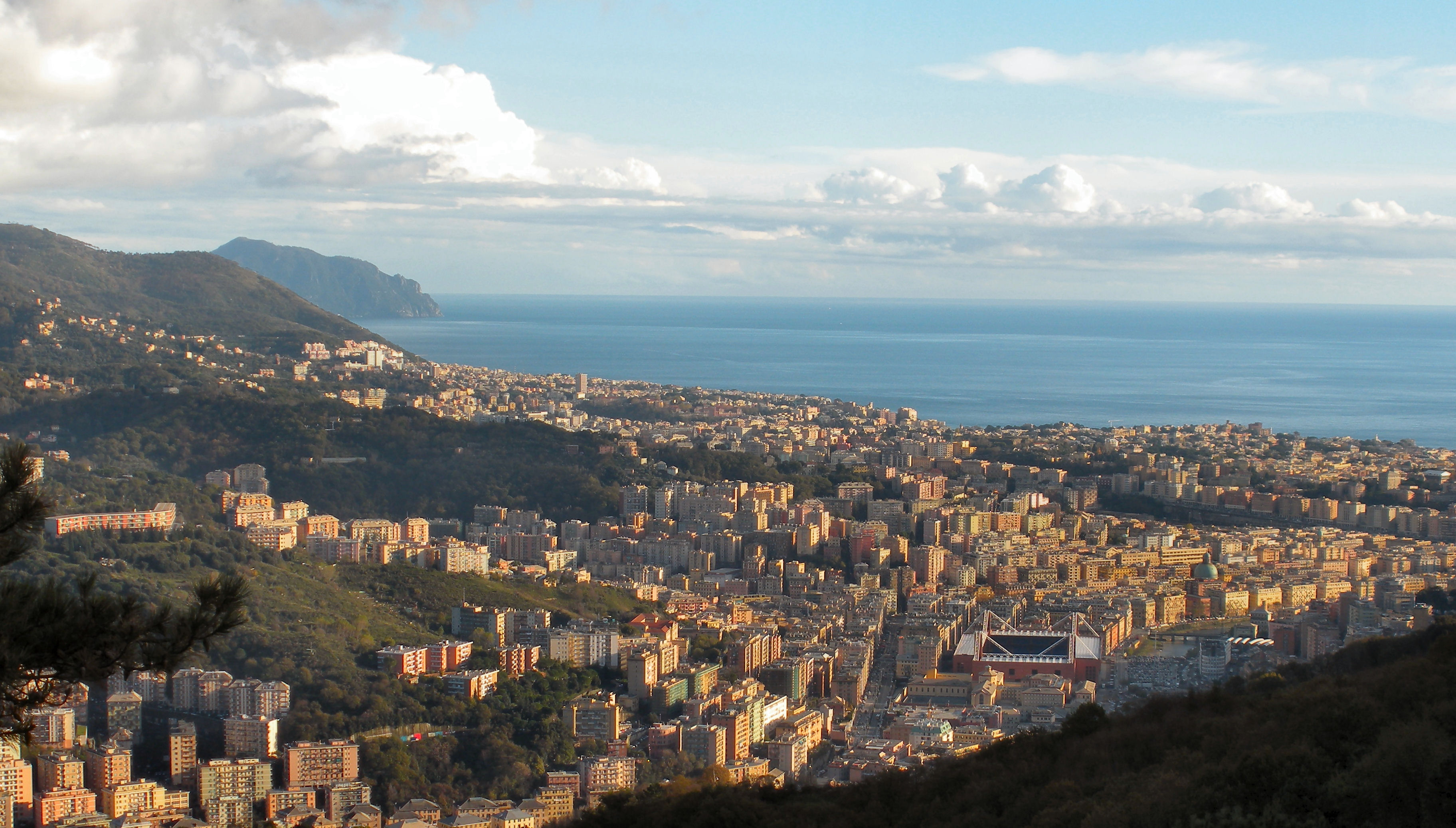 Genoa (Italy), view of the quarter of Marassi